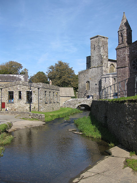 River Alun/Afon Alun from the footbridge This is the ford through the Alun which separates the cathedral from the Bishop's Palace. The small building to the left is now used as a gift shop.